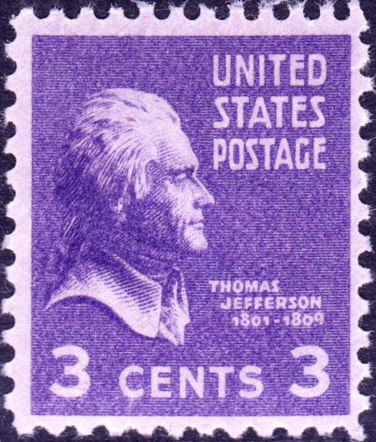 Thomas_Jefferson_1938_Issue-3c.jpg